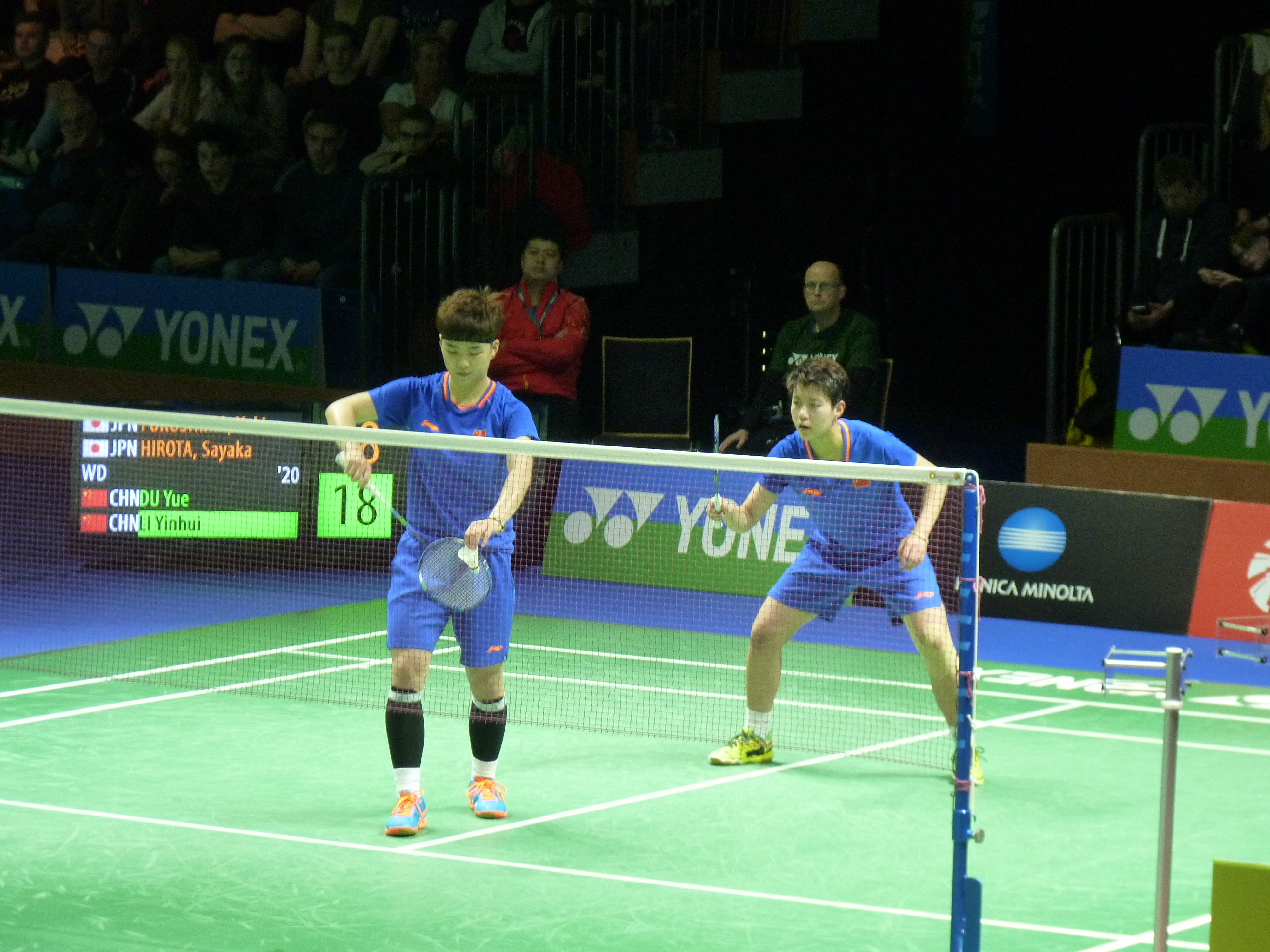 Due Yue & Li Yinhui (China)